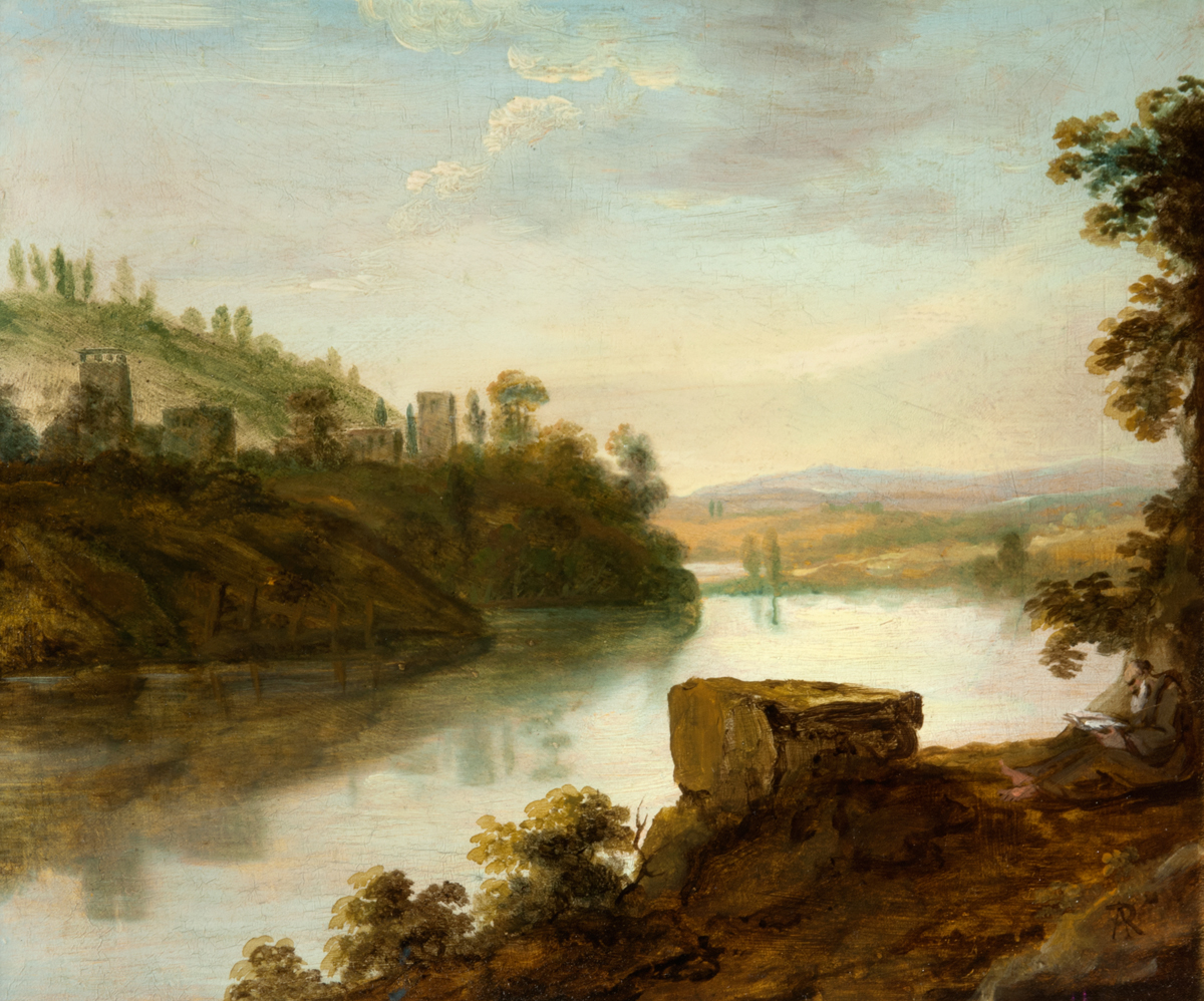 Nasmyth, Charlotte; Pastoral Landscape; National Galleries of Scotland